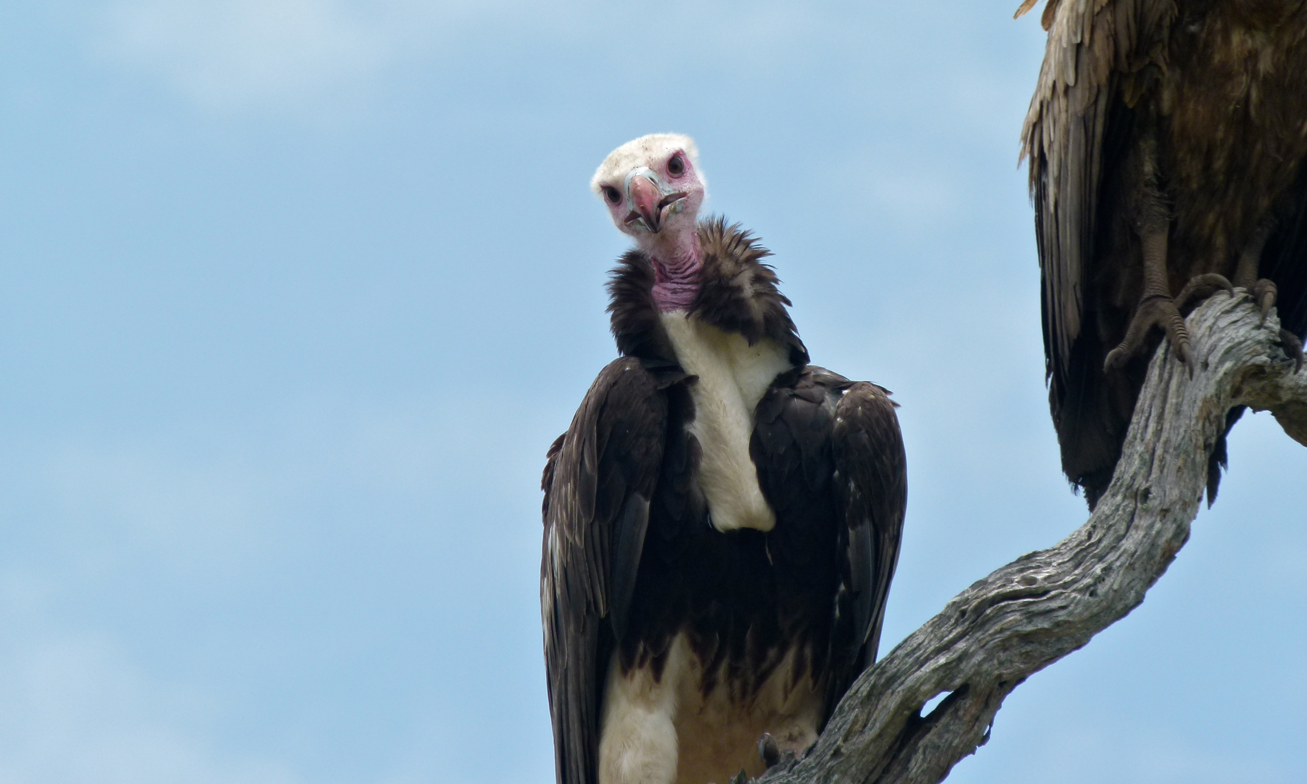 H1-3 South of Satara, Kruger NP, SOUTH AFRICA